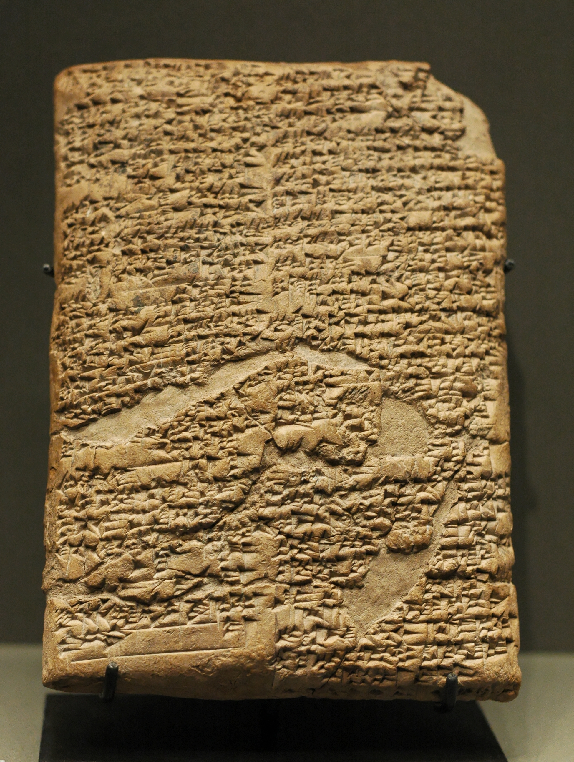 Prologue of the Code of Hammurabi (the 305 first inscripted squares on the stele). Some gaps in the list of benefits bestowed on cities recently annexed by Hammurabi may prove the tablet is older than the celebrated basalt stele (also in the Louvre).